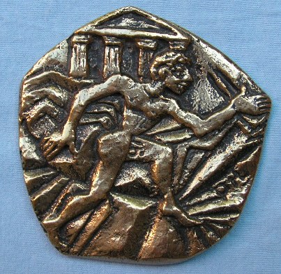 Spartathlon medal